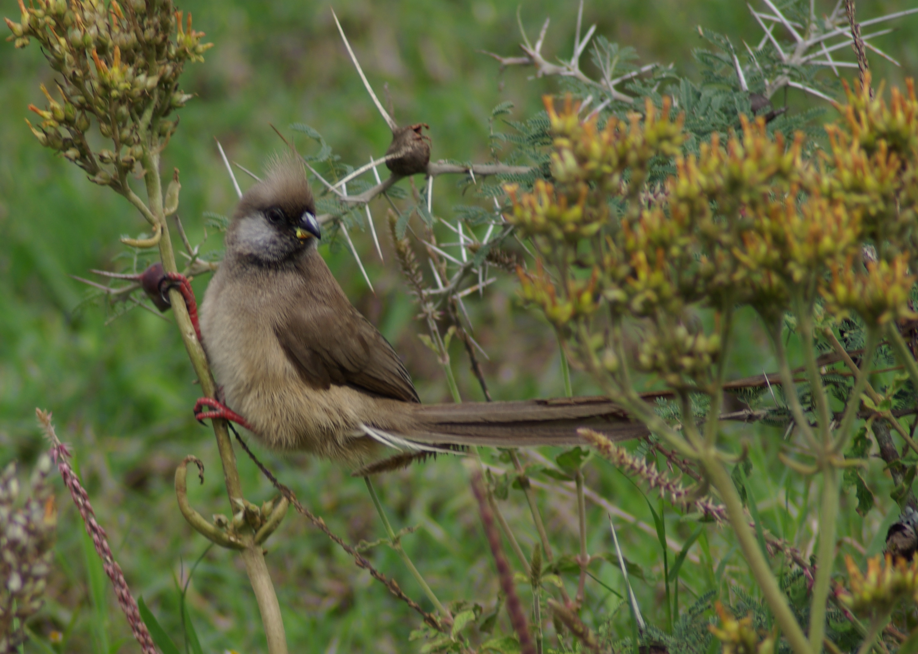 Speckled Mousebird, Colius striatus, Sweetwaters Game Reserve, Kenya